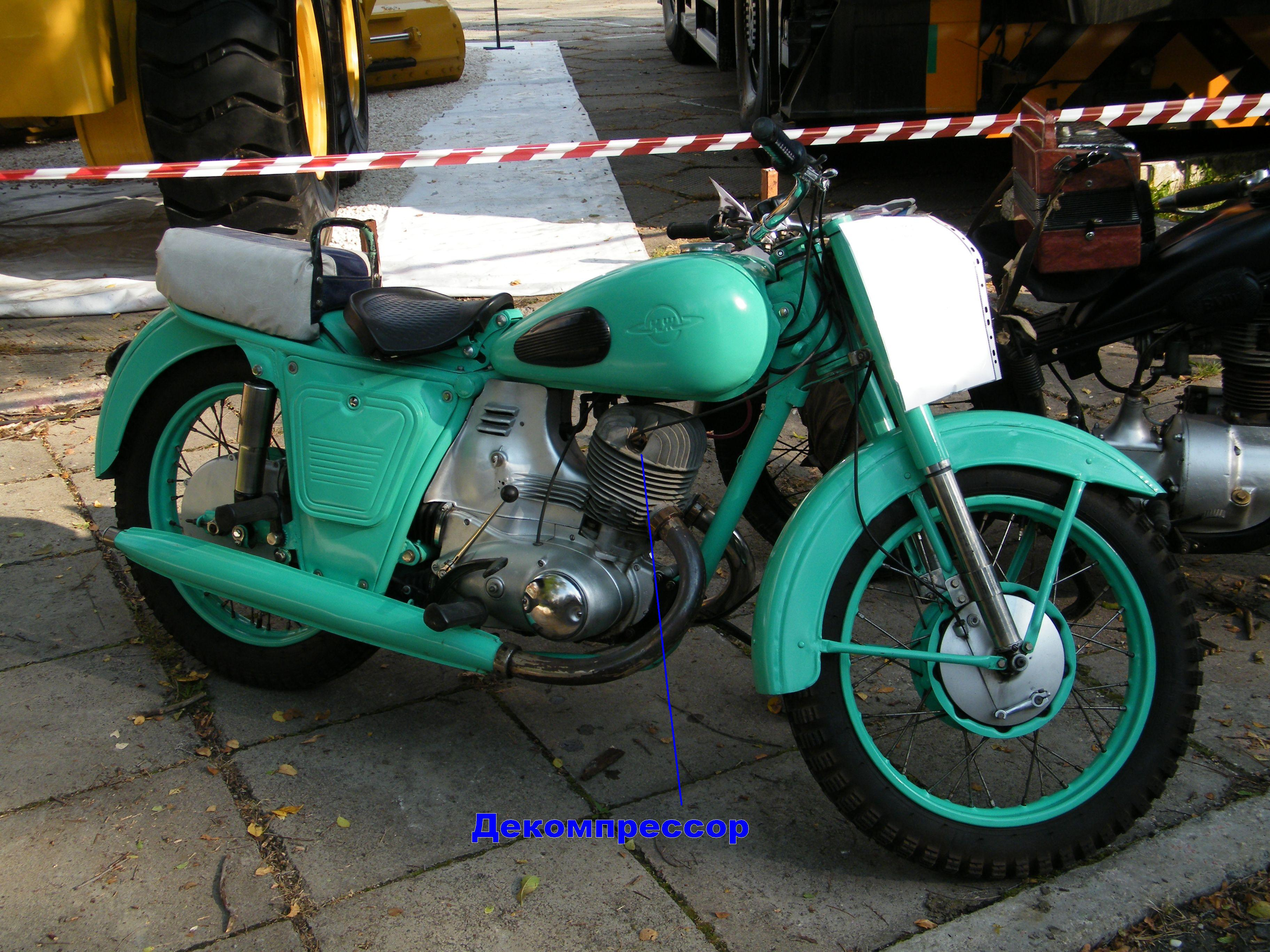 Мотоцикл ИЖ-56, декомпрессор